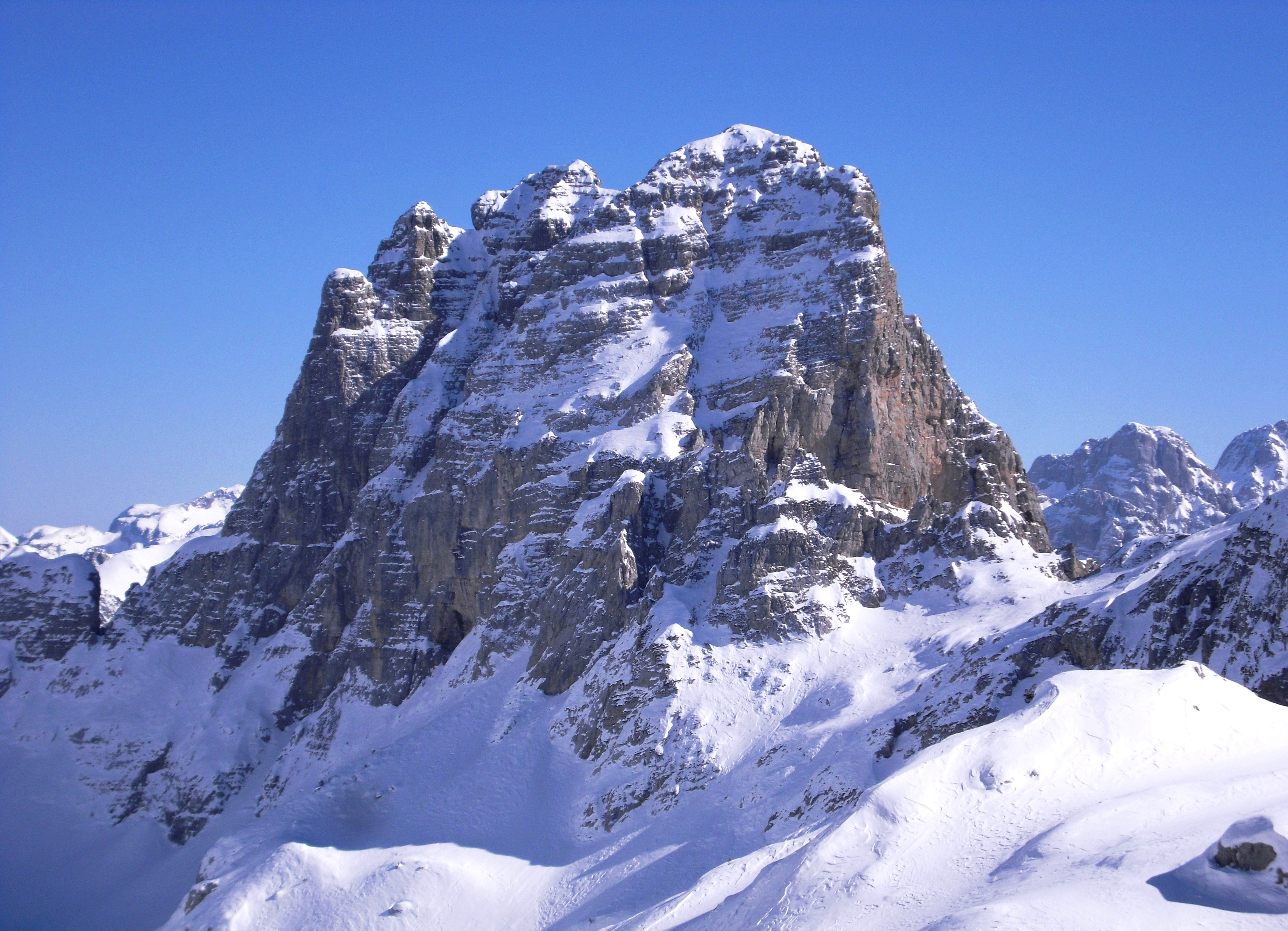 Northwestern view of Maja e Thatë's rocky face from the trough of Rupa (Albanian: Lugu i Rupës)